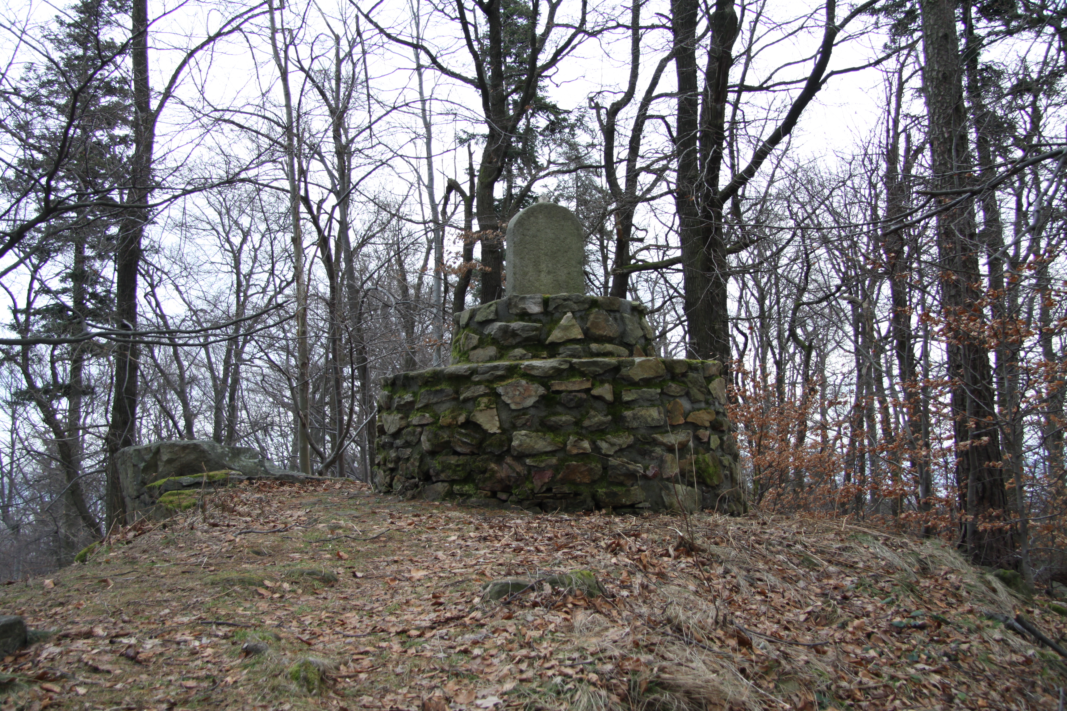 Natural reservation Skočický hrad near Skočice, Strakonice District, Czech Republic - Google Maps - Google Earth